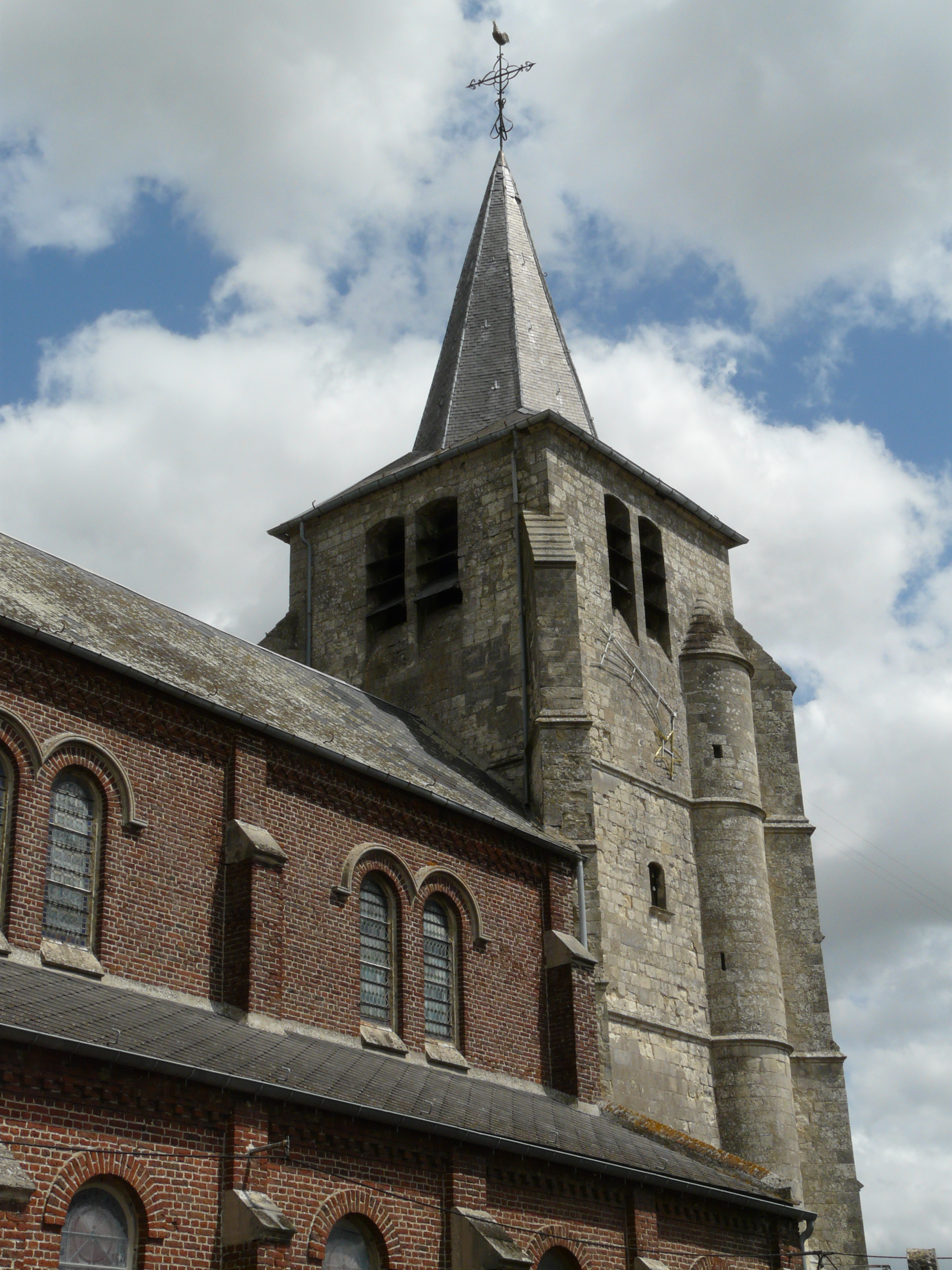 Church in Cattenières (Nord, France)